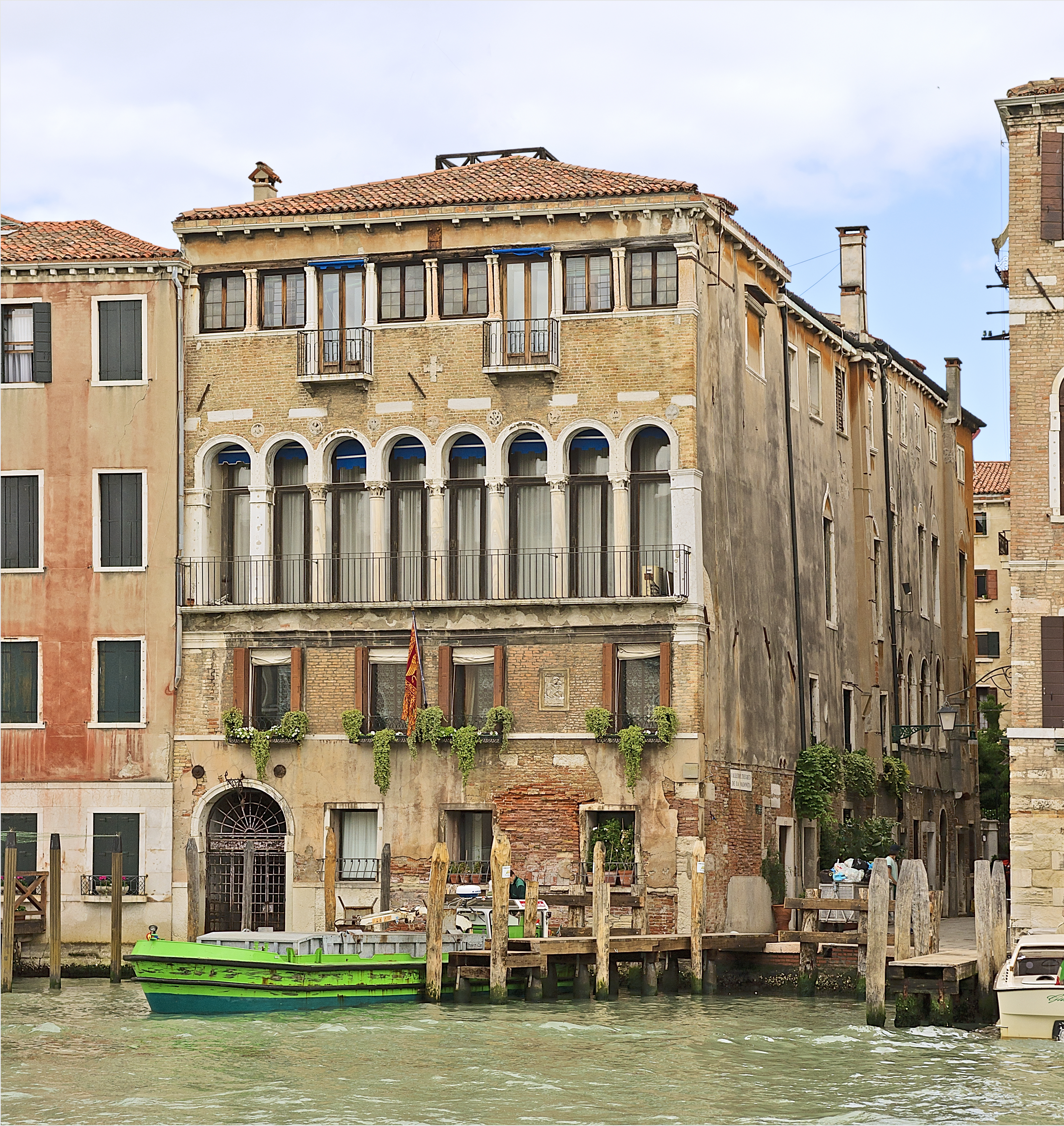 Palazzo Donà della Madoneta Venice. Facade on Grand Canal.